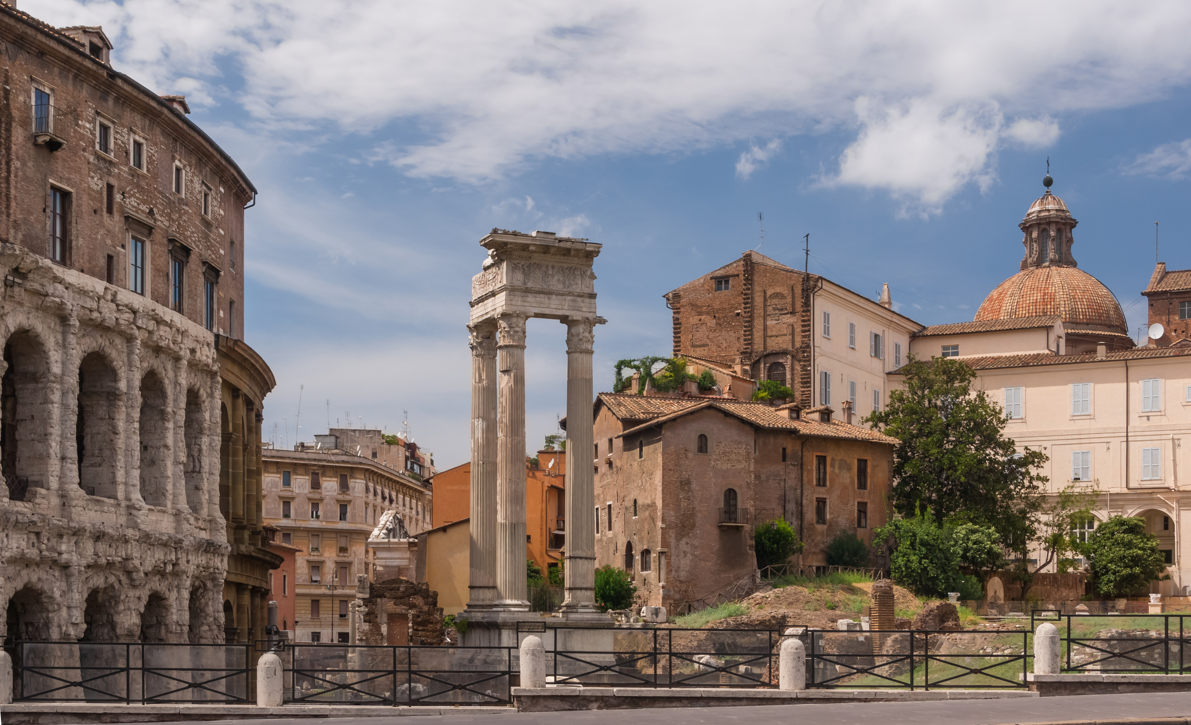 Temple of Apollo Sosianus, partial view of theater of Marcellus at left. Dome of the church Santa Maria in Campitelli. Rome, Italy.